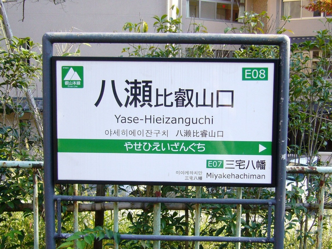 The Running in board of Eizan Electric Railway Yase-Hieizanguchi Station. The image shows the running in board after introduction of the line colour and station numbers. It also shows symbol mark of Mount Hiei which gives an idea of the green line colour. In addition to Japanese, European Charactors, Korean and Chinese are shown.